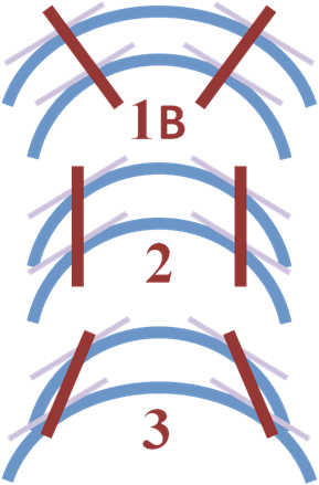 Geological fold classification using Ramsay's terminology